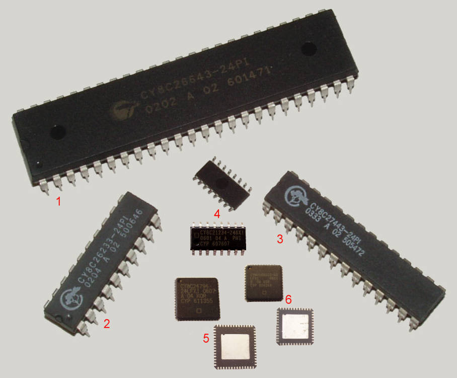 some different Cypress PSoC Microcontroller